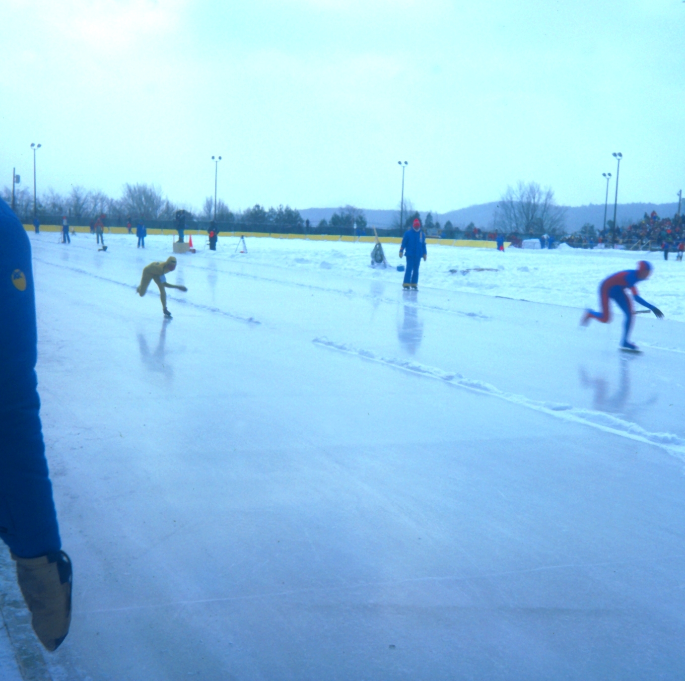 Speed skating at the 1980 Winter Olympics.